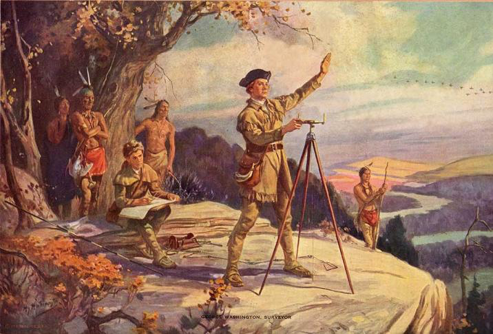 George Washington, surveyor, print from painting by Henry Hintermeister. Published by Osborne company.